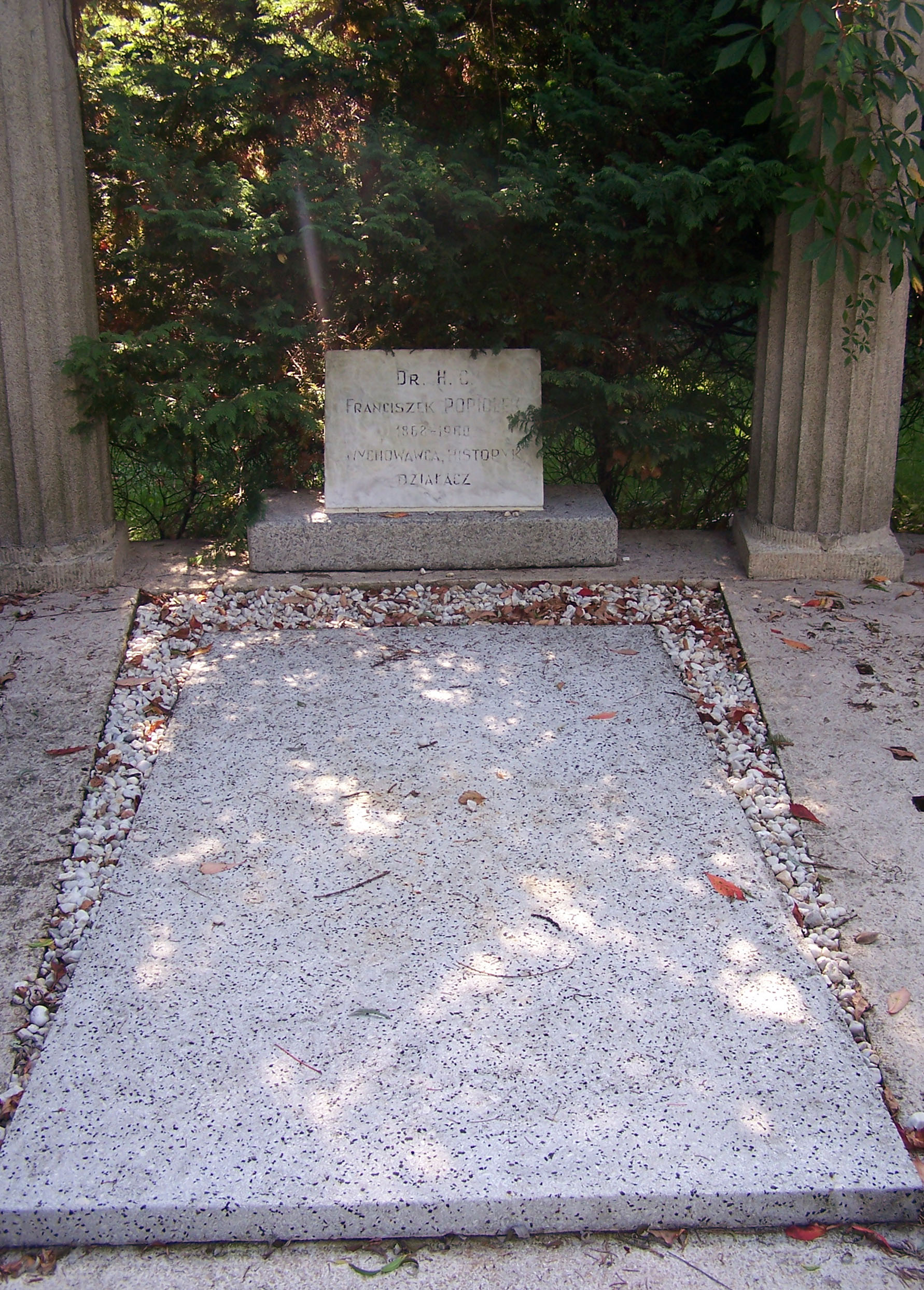 Grave of Franciszek Popiołek at the Communal Cemetery in Cieszyn, Poland